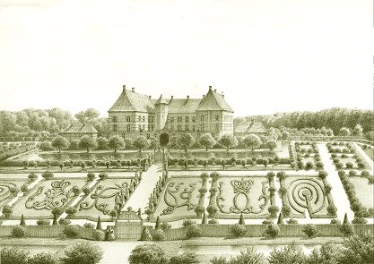 Vemmetofte with Prince Carl's Baroque